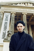 Hans Martin Sewcz Schwerin 1997 Porträt